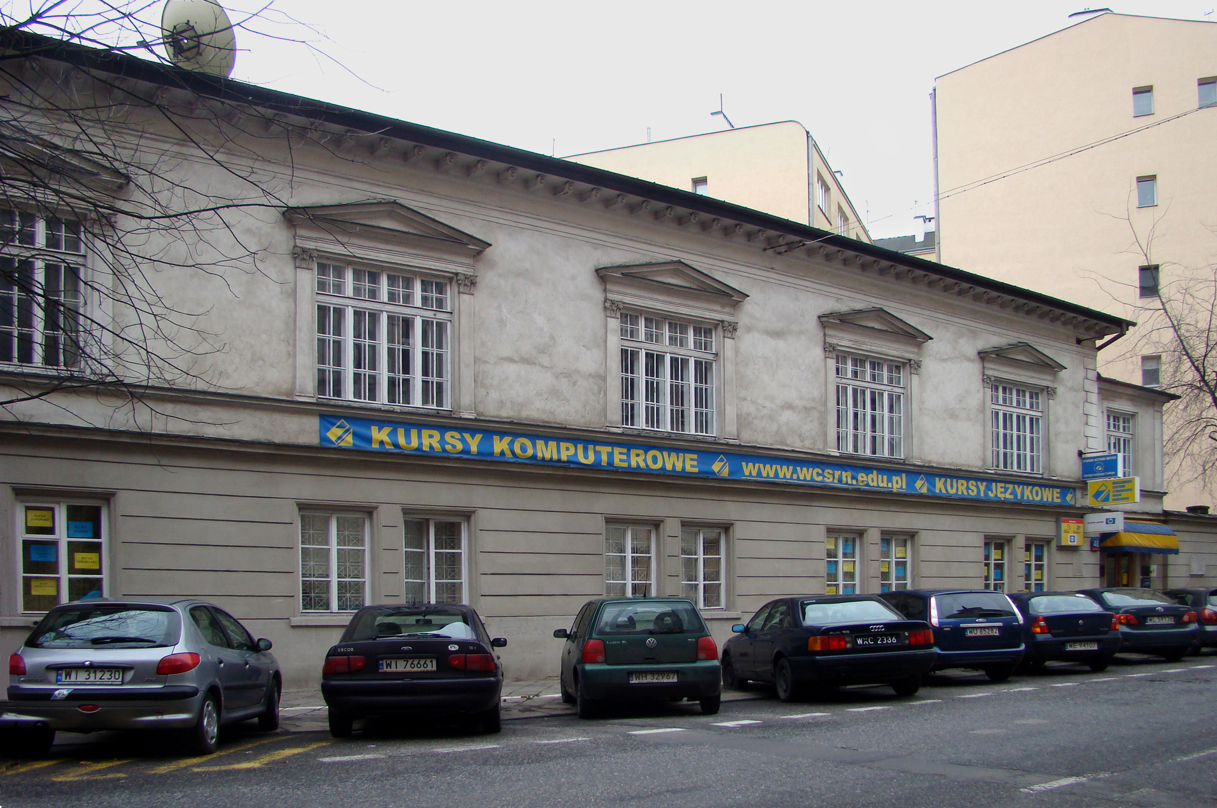 Kraszewski House, Warsaw